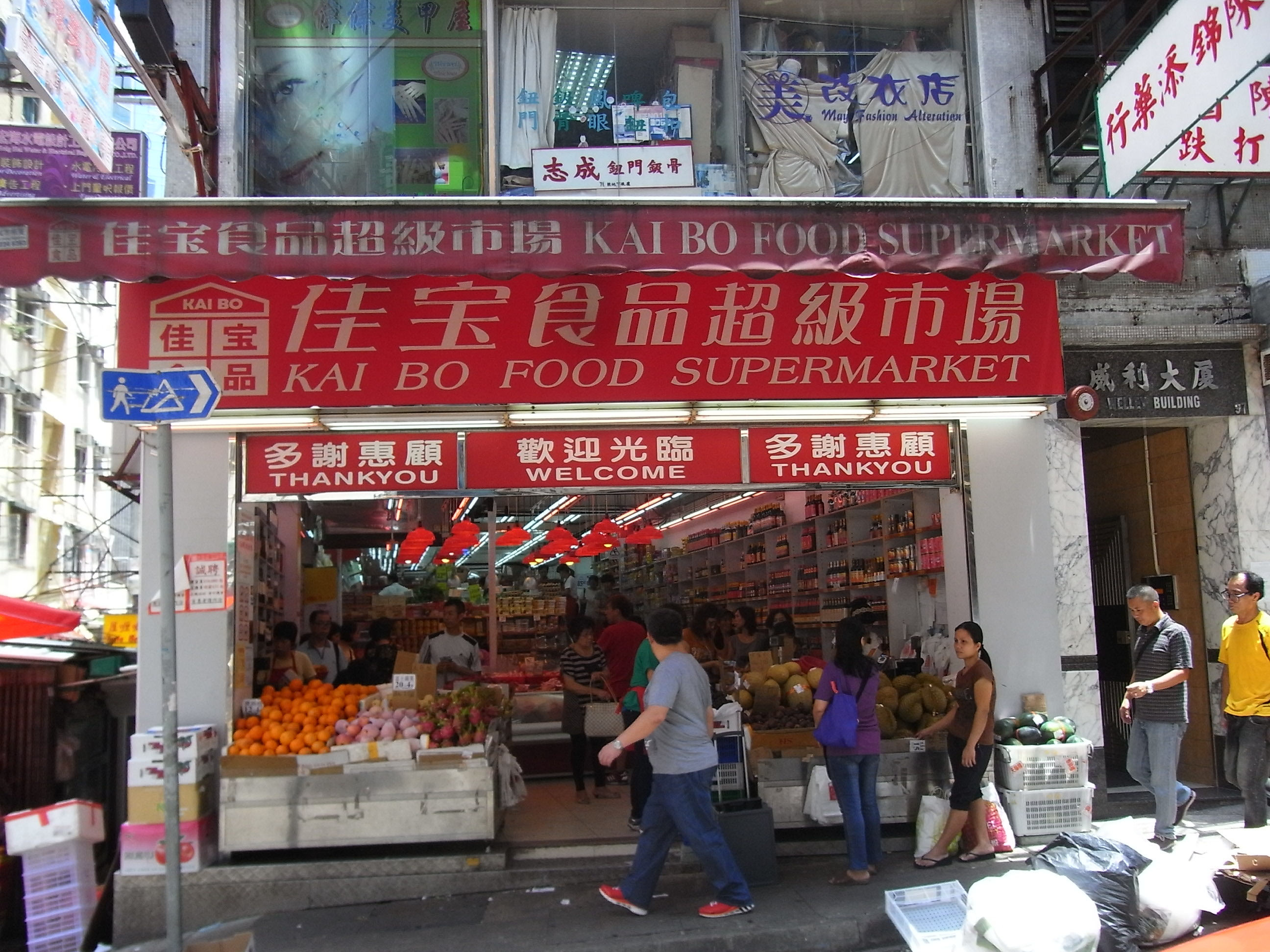 中環, Central, Hong Kong